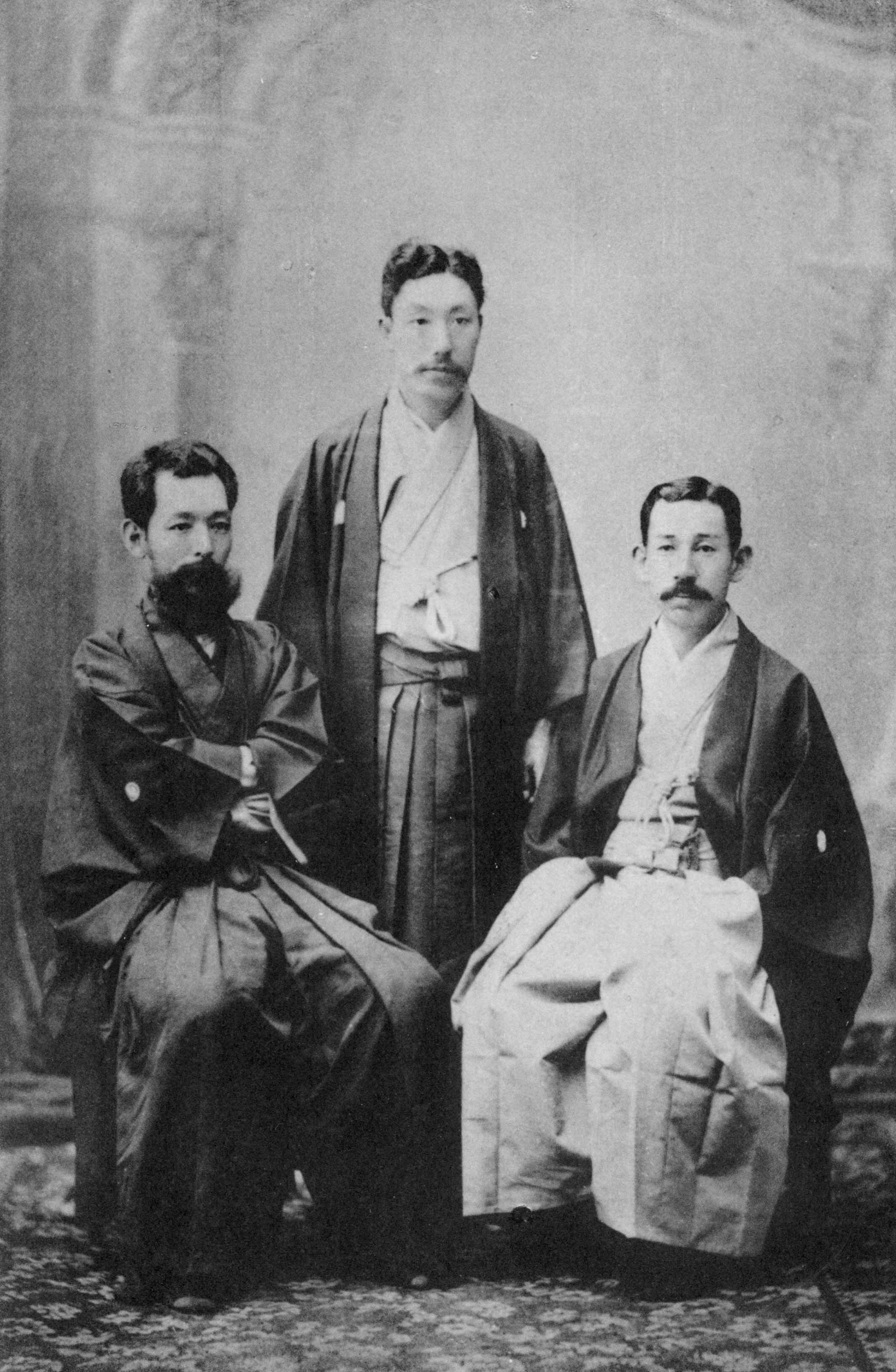 Hozumi Nobushige, taken in Meiji 28 (from right, Hozumi, Professor Ume, Professor Tomii).